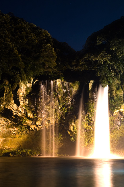 A long exposure image of the Cheonjiyeon Waterfall at night.